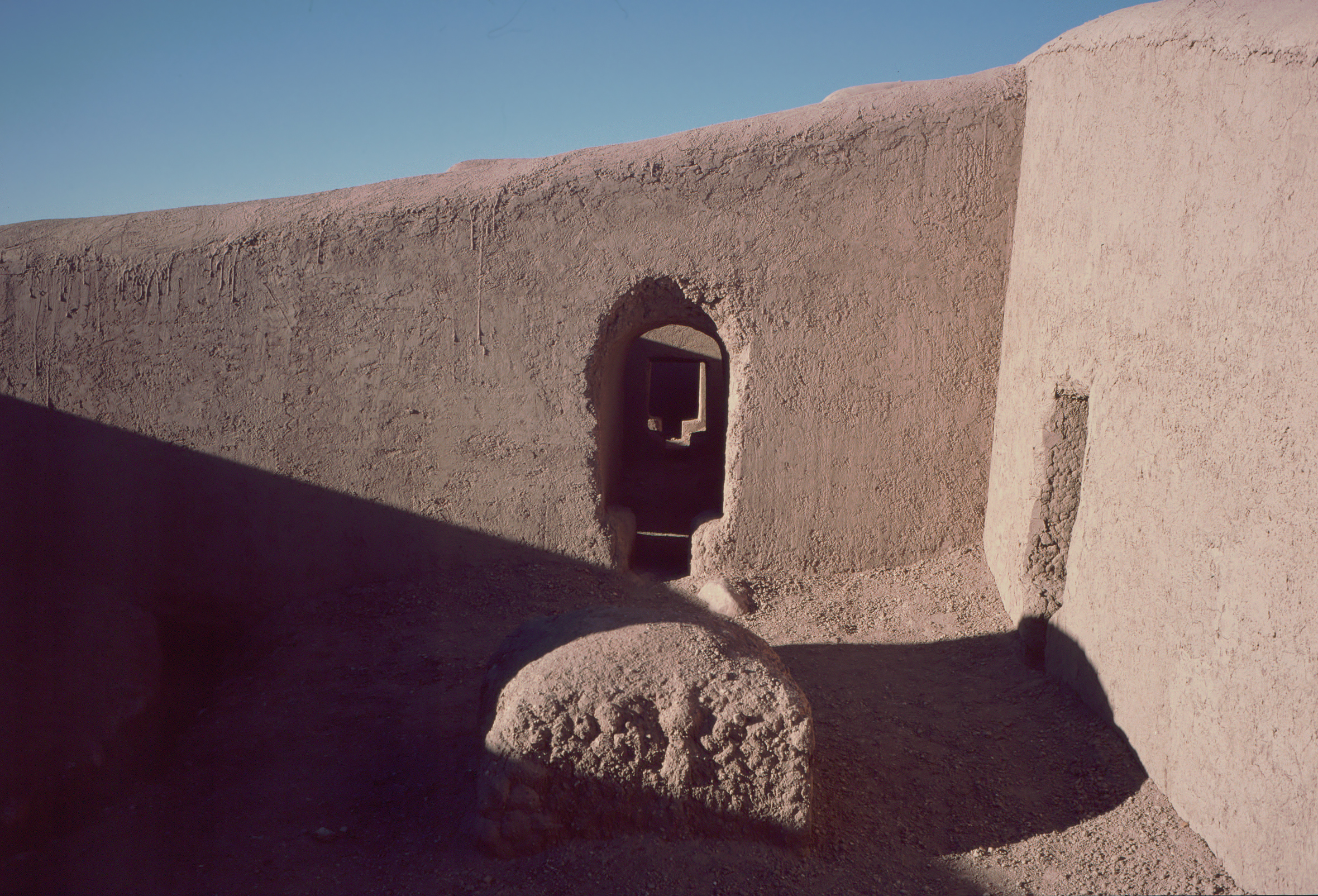 Paquime, Chihuahua, Mexico: Residential area.